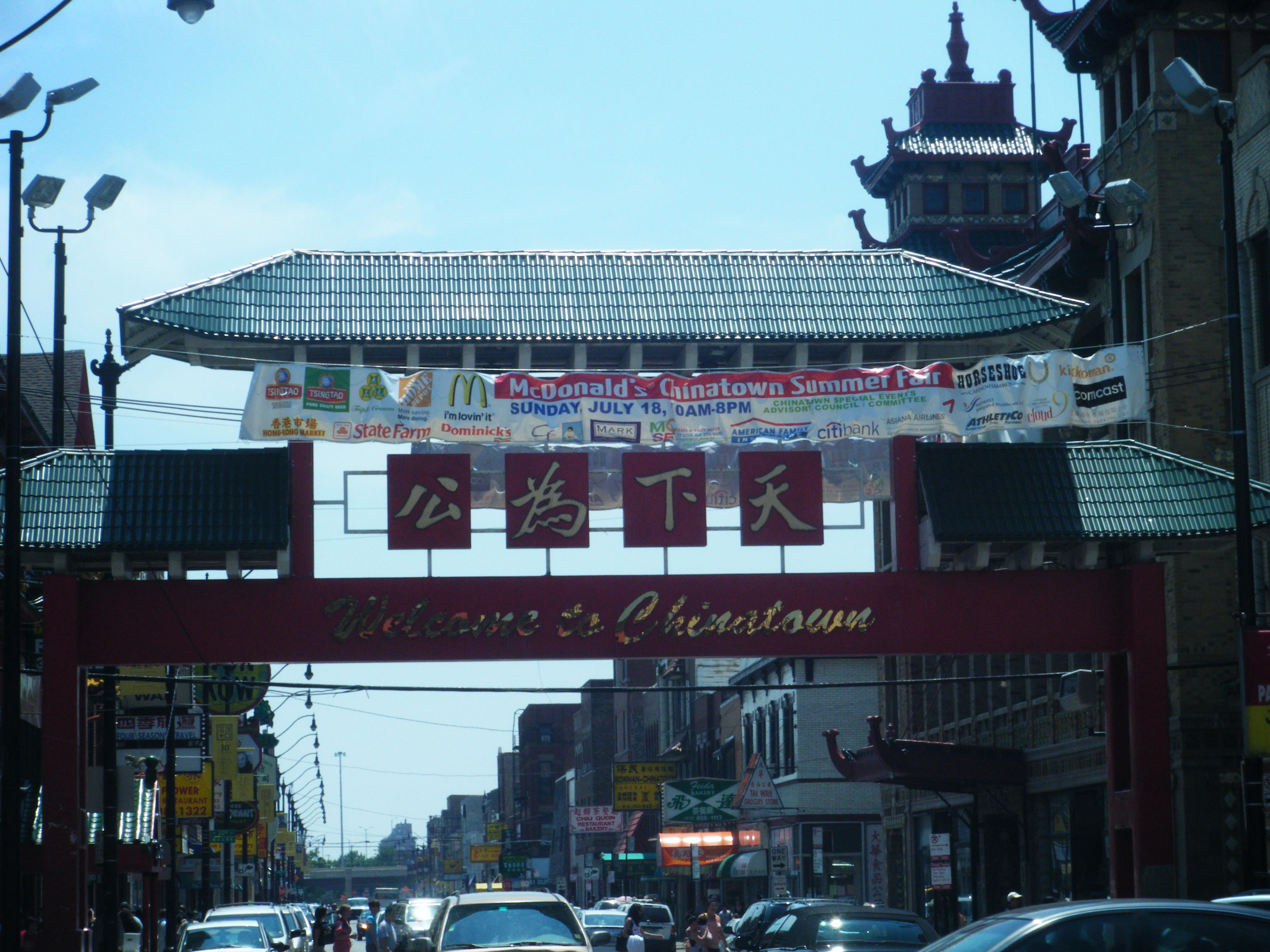 A summer's day visit to Chinatown, Chicago, Illinois